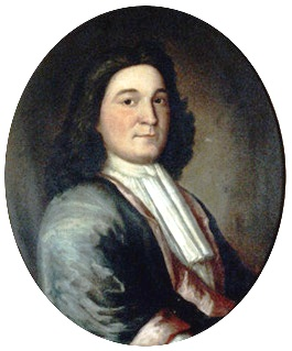 A portrait of Sir William Phips, first royal governor of the Province of Massachusetts Bay.